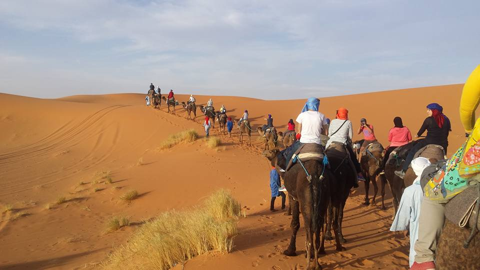 This is an image from Morocco